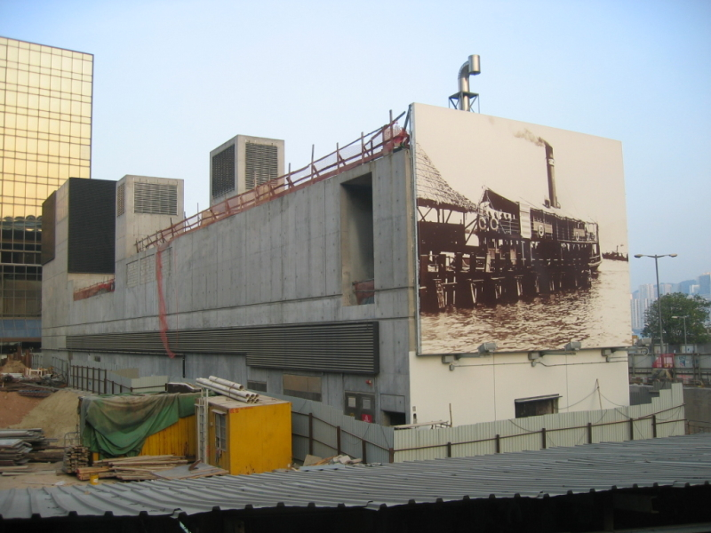 Tsim Sha Tsui East Waterfront Podium Garden Site 尖沙咀東海濱平台花園地盤